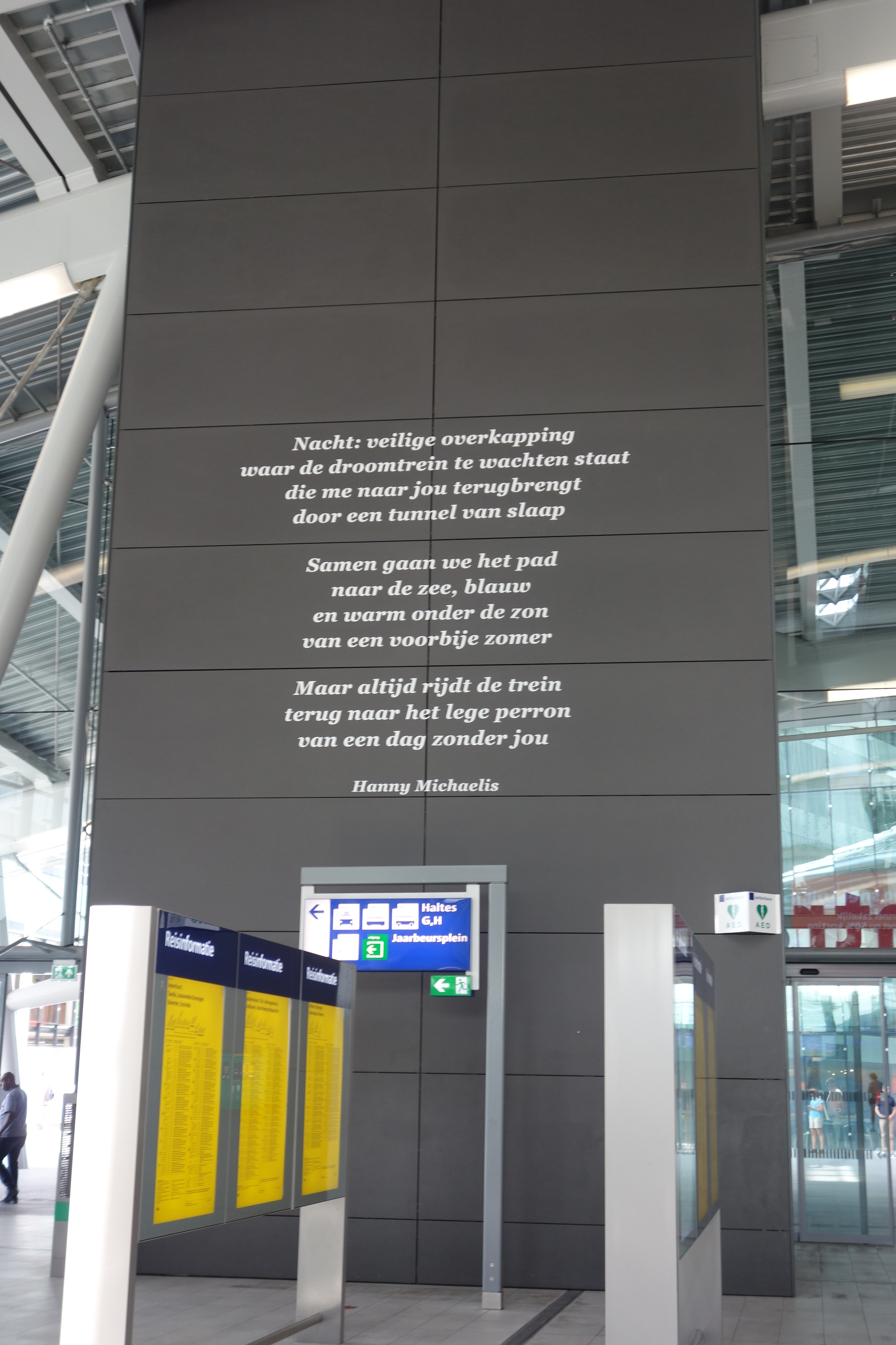 Poem Nacht by Hanny Michaelis at Railway Station Utrecht Centraal, June 2017